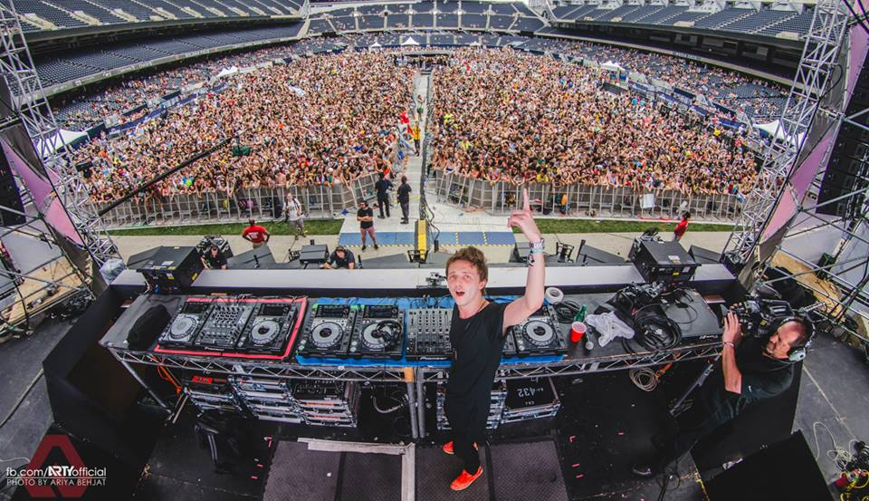 Arty @ Spring Awakening, Chicago — June 14th, 2014